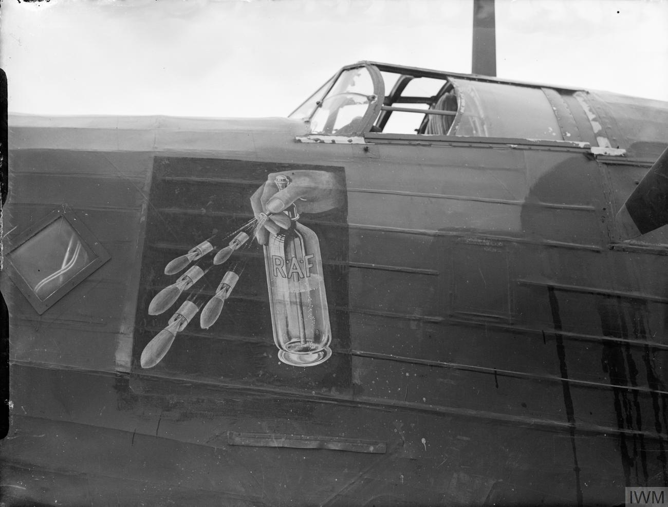 IWM caption : Unofficial emblem painted on the side of a Vickers Wellington of No. 75 (New Zealand) Squadron RAF at Feltwell, Norfolk, depicting an 'RAF' soda-syphon spraying bombs.